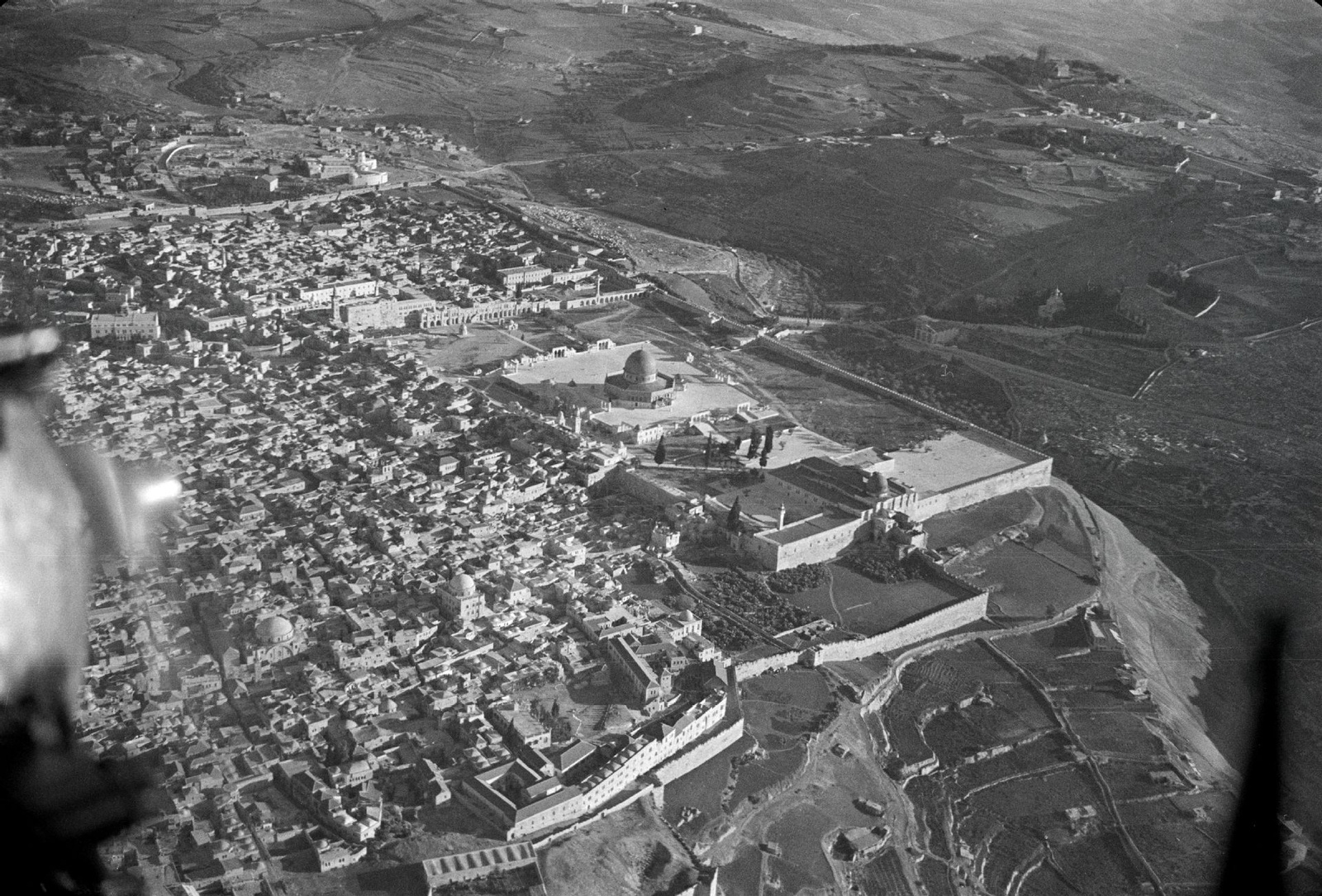 Ariel view of Jerusalem